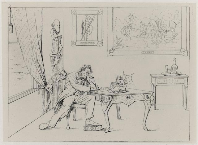 A political cartoon by Adalbert J. Volck titled Caricature of Lincoln writing the Emancipation Proclamation. A demon holds Lincoln's inkwell. Lincoln has his foot on the US Constitution. Art on Lincoln's wall glorifies John Brown and the slave revolt in Haiti.